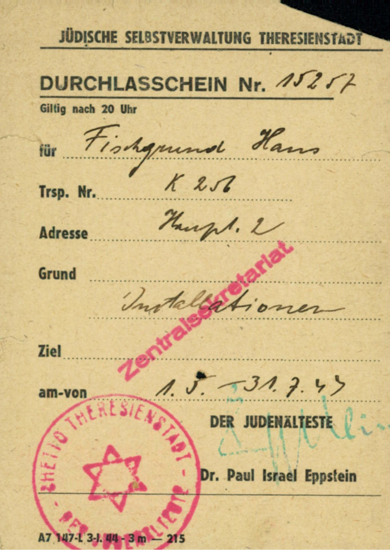 Fischgrund, Hanuš/Jan: Restricted access pass and invitation to the filming in the coffeehouse in Terezín